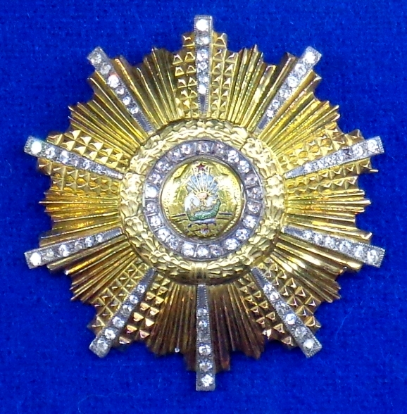 Order of the 23 August 1st class. Socialist Republic of Romania. The exhibition of the Tallinn Museum of Orders of Knighthood, Estonia.